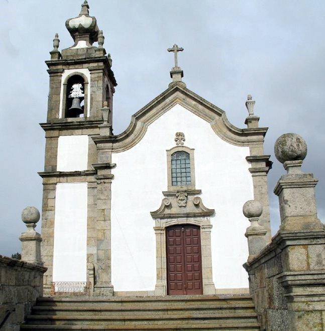 Vascoes Church in Paredes de Coura, Portugal